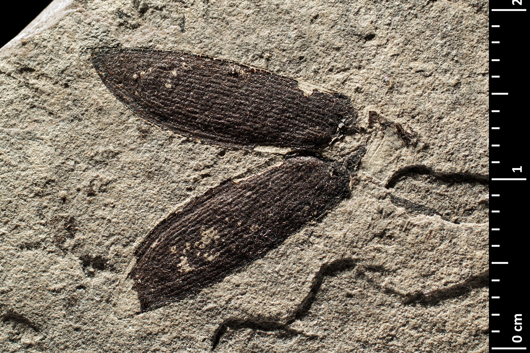 The Carabus neli holotype specimen with indirect lighting. Turolian, Miocene; Montagne d'Andance, Saint-Bauzile, Privas, France Muséum national d'Histoire naturelle specimen MNHN.F.A40895